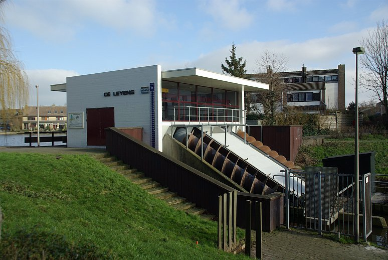 Pumpworks "De Leyens", Zoetermeer NL, example of a screwpump